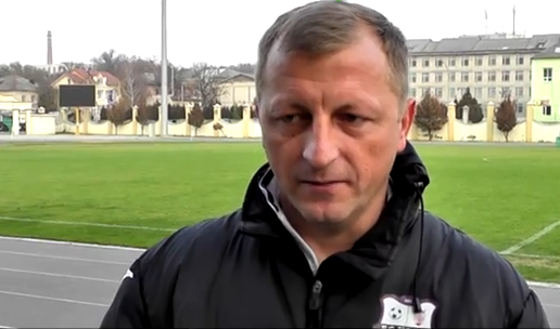 Lilian Popescu